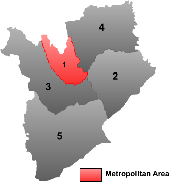 Map of Baicheng prefecture in Jilin province